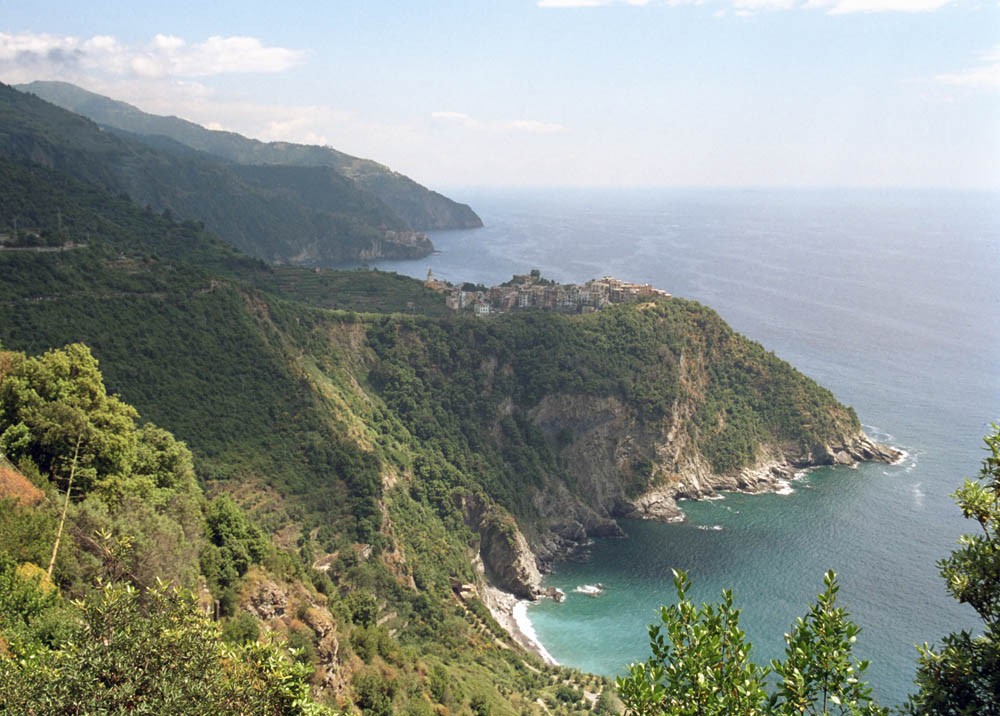 Photo of Corniglia in Italy.